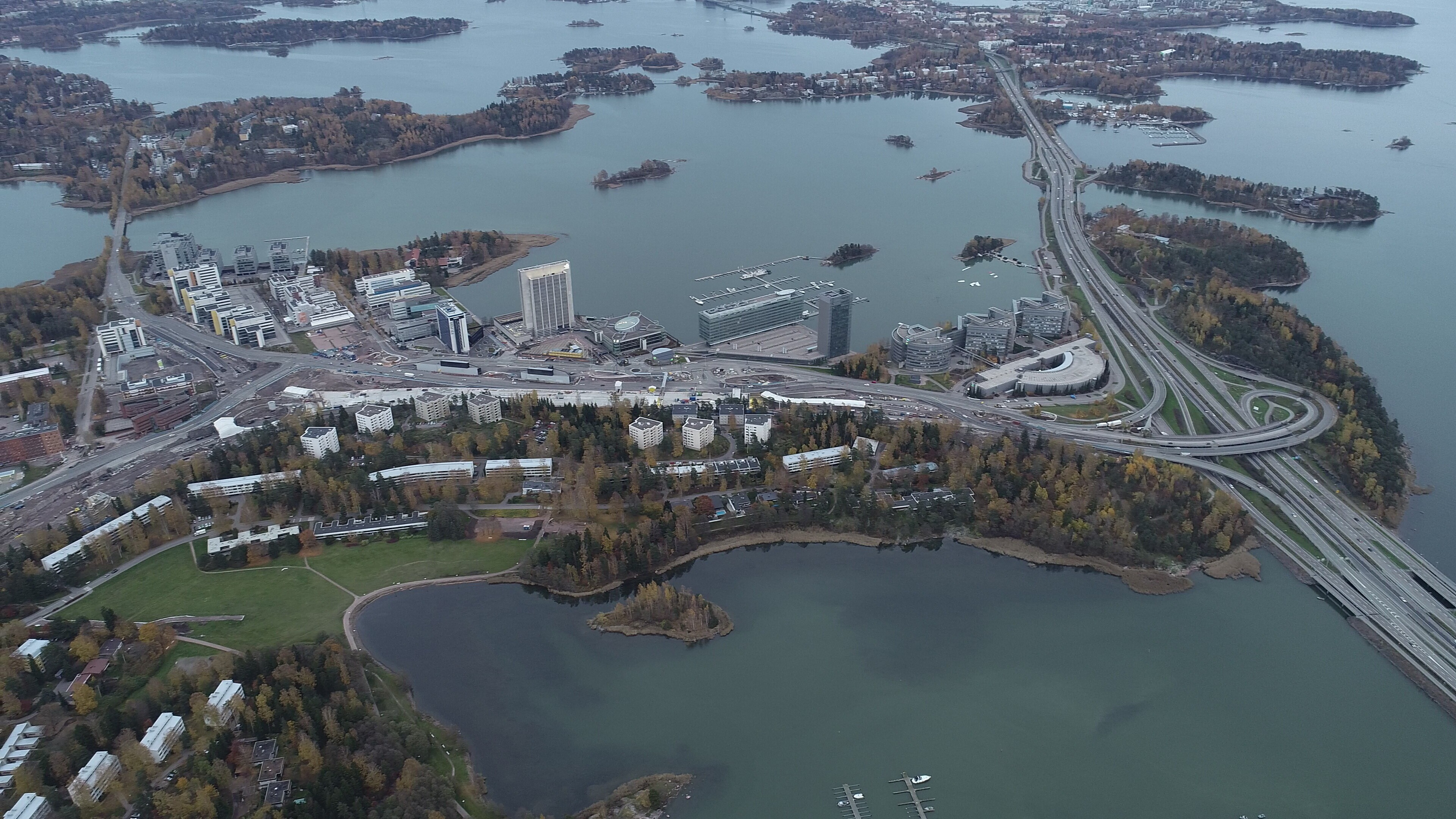 Keilaniemi